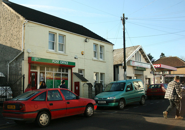 Peasedown St. John Post Office